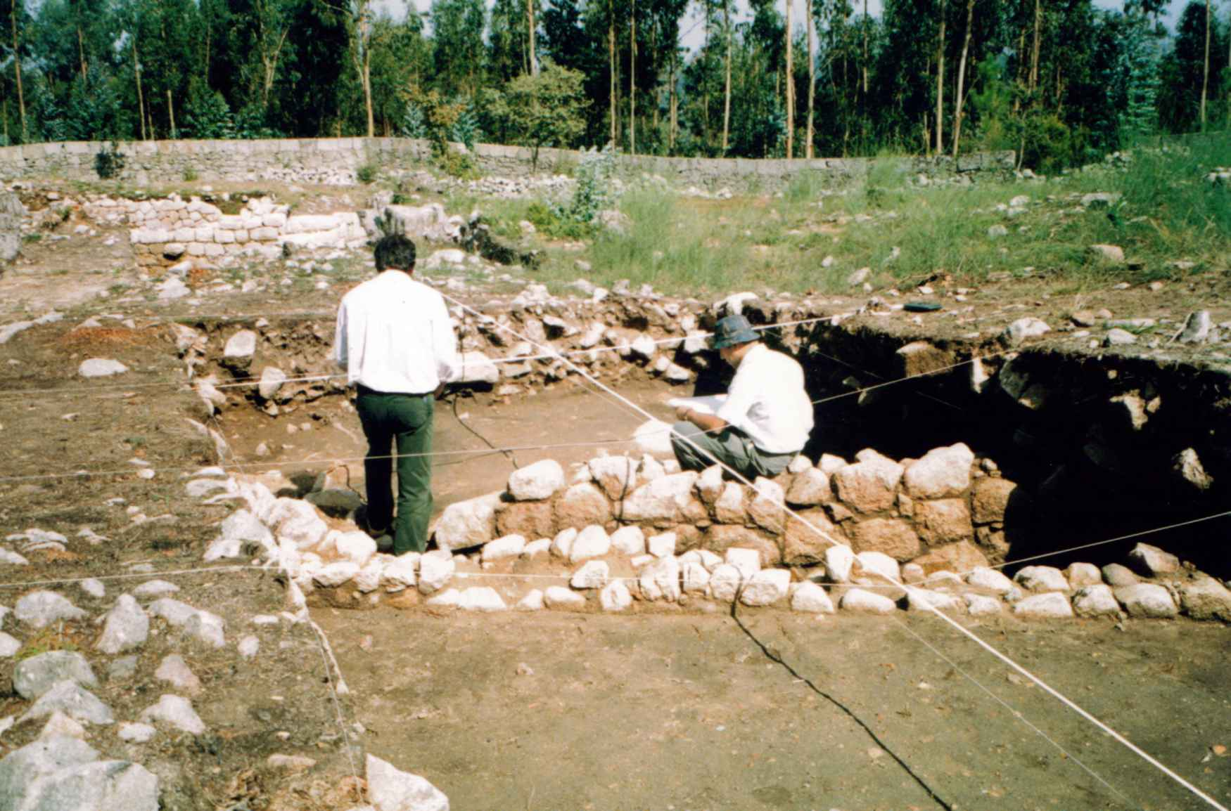 Hill Fort - Castro of Alvarelhos - Trofa - Portugal